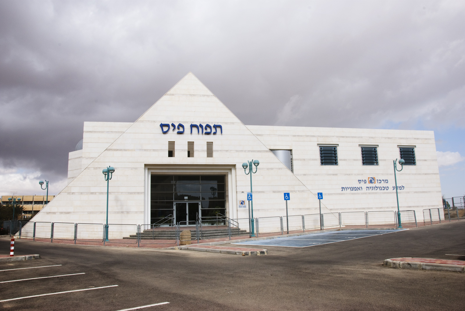 Tapu'ah Payis, a youth extracurricular activities center.